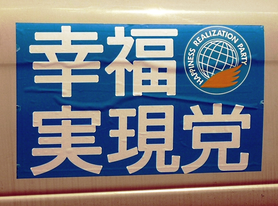 i took this photo in Kyoto in 2010.